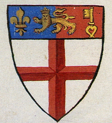 An image of the coat of arms of the Norroy King of Arms from a 1595 manuscript called Lant's Roll, created by Thomas Lant.